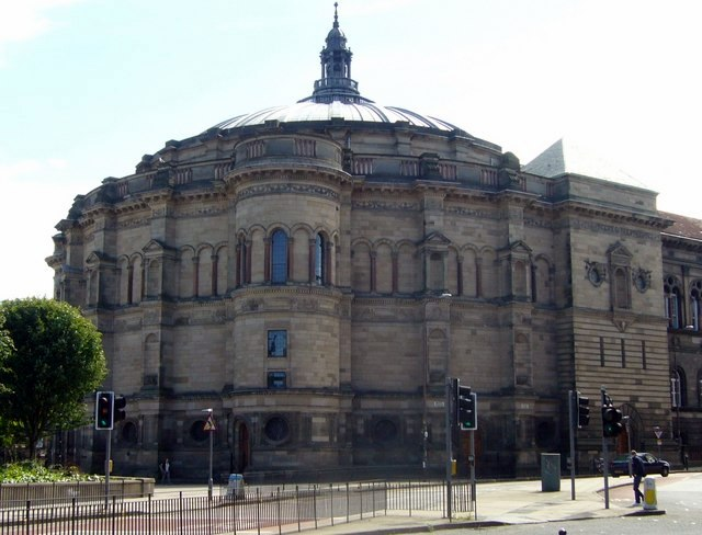 McEwan Hall, Teviot Place University graduation hall, completed in 1897 and paid for by an Edinburgh brewer.